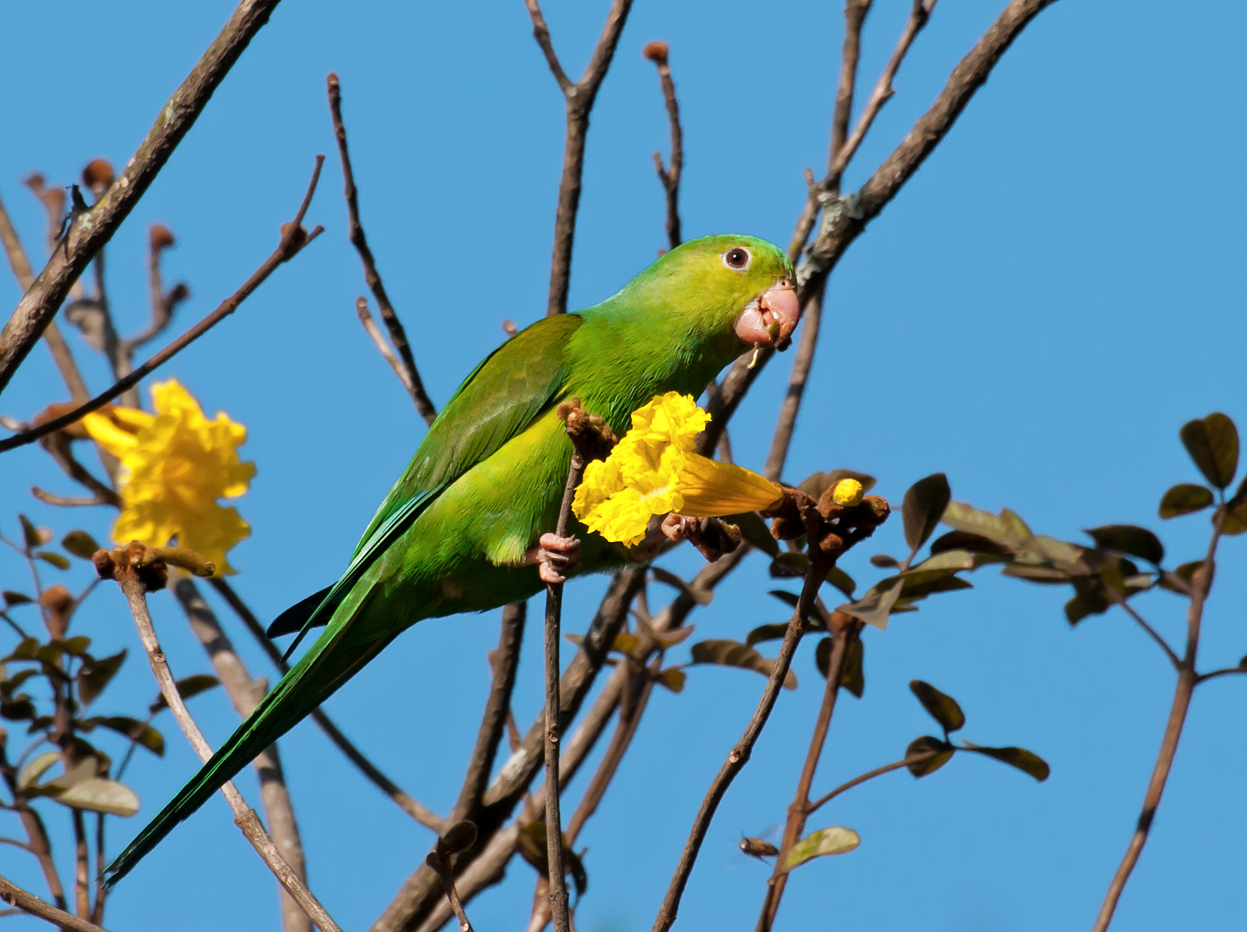 A Plain Parakeet in Parque Estadual da Serra da Cantareira, São Paulo, Brazil.